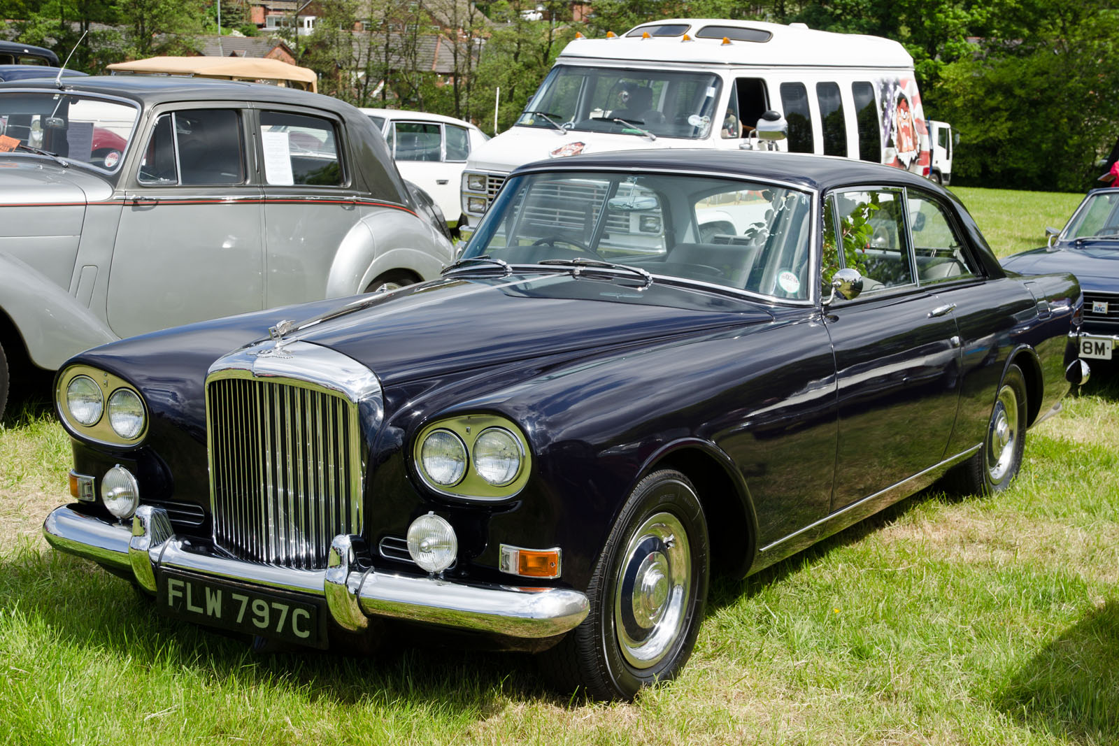 Heskin Hall Steam Fair 02/06/2013